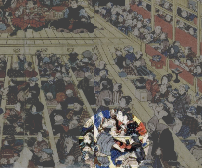 Dekata, or theater-waiters, depicted in Odori-keiyō Edo-e no Sakae by Toyokuni Utagawa III